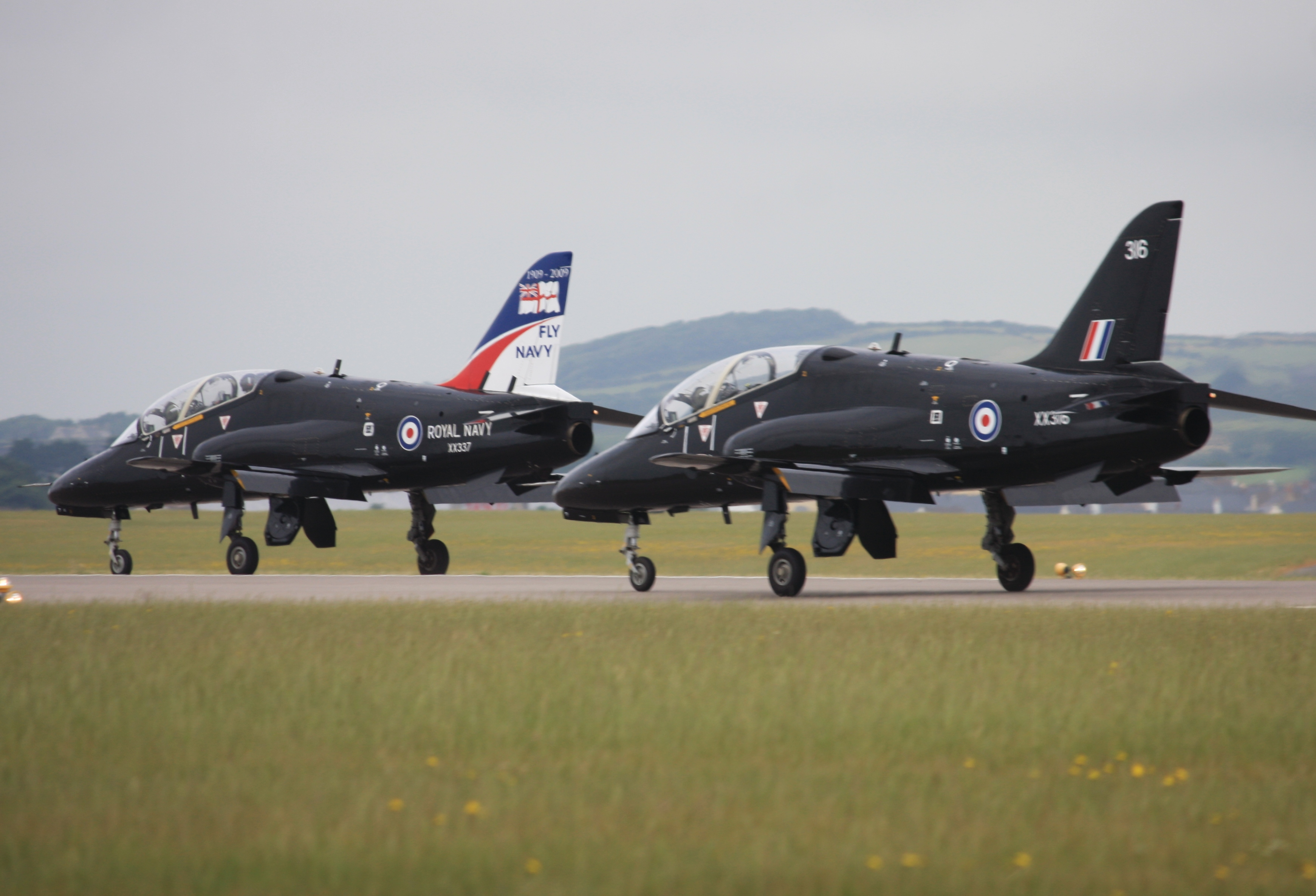 also visible: XX337 British Aerospace Hawk T1A (cn 186/312161) Royal Navy. Culdrose (EGDR) UK - England, July 24 2013.